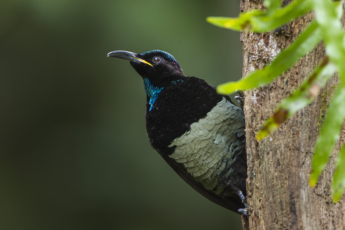 Victoria's Riflebird courtship - Lake Eacham - Queensland_S4E7598